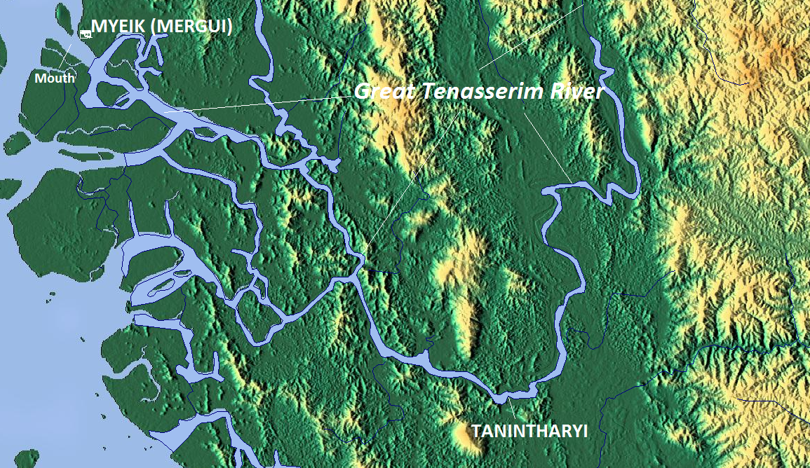 Map showing the lower course of the Great Tenasserim River, southeastern Burma